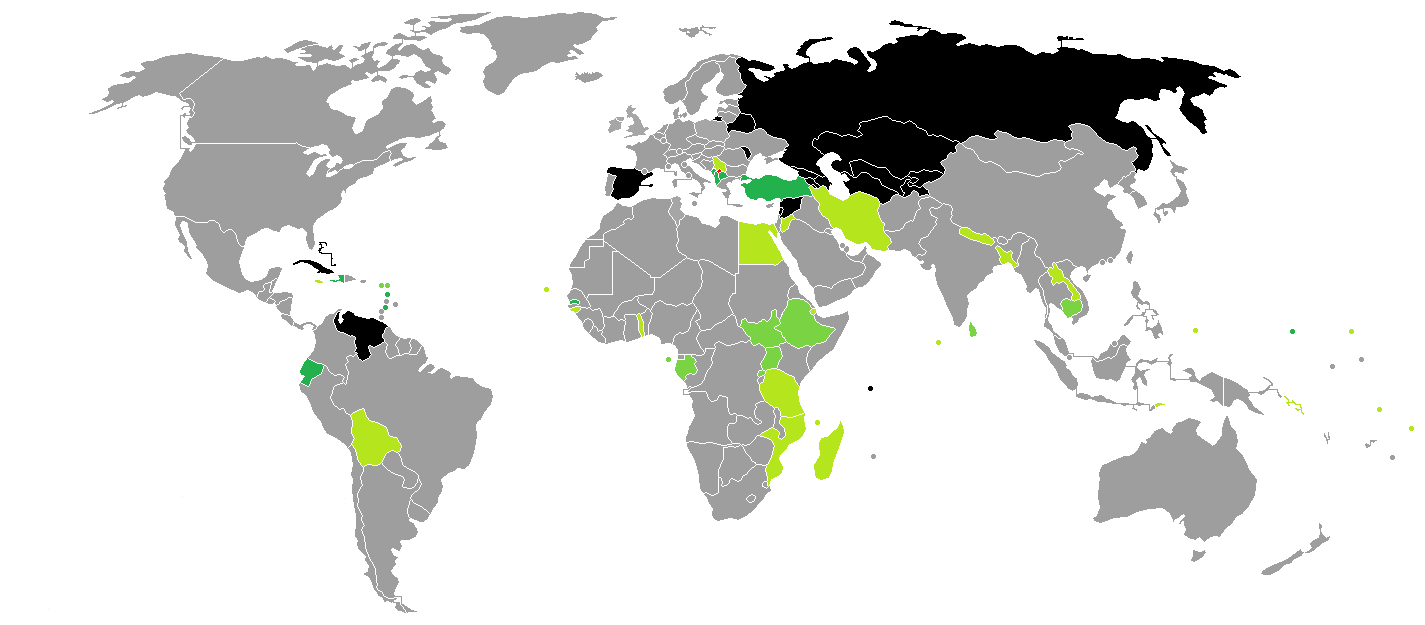 Visa requirements for Kosovan citizens